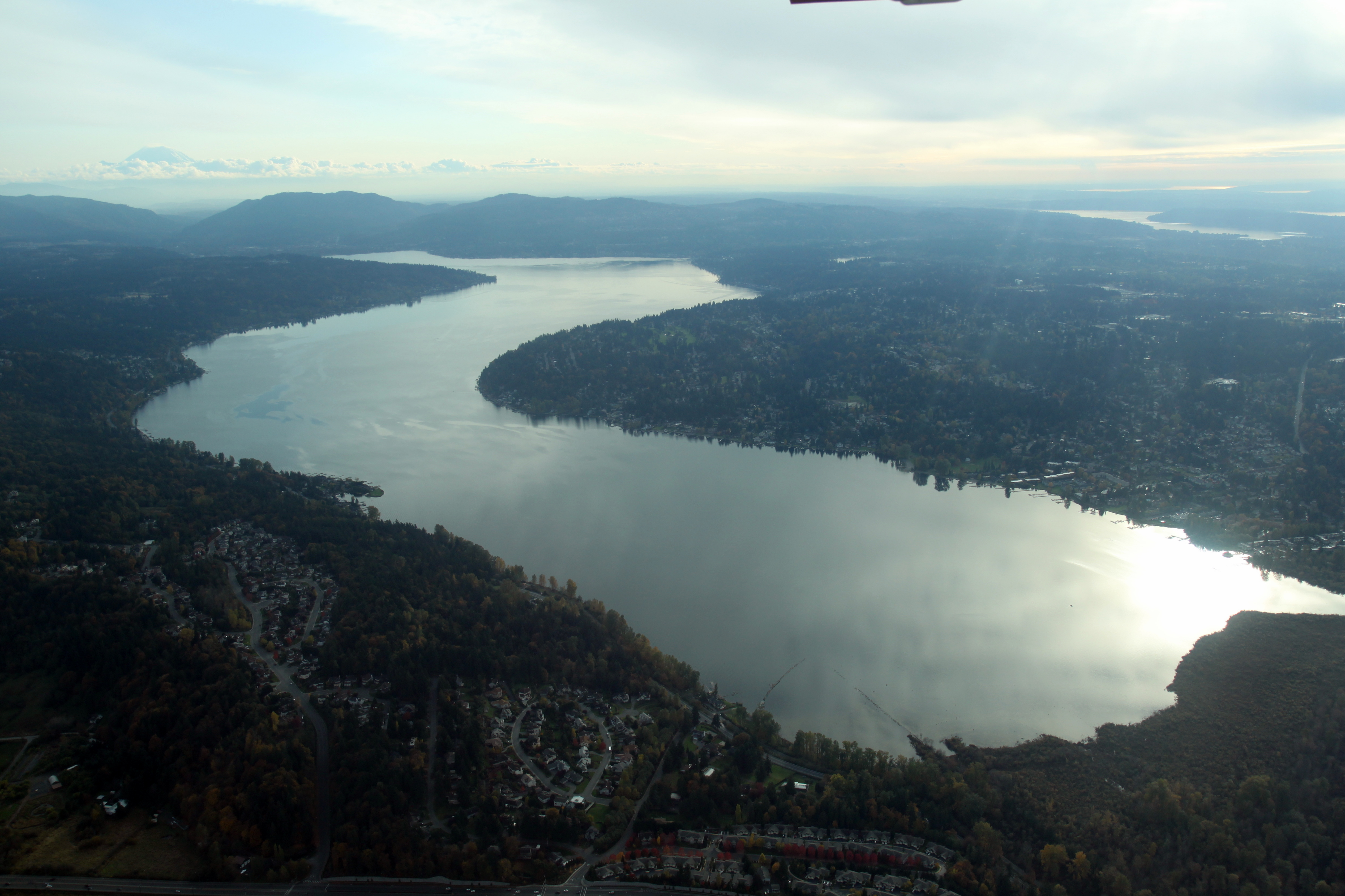 An aerial view of Lake Sammamish from its north end, looking south.